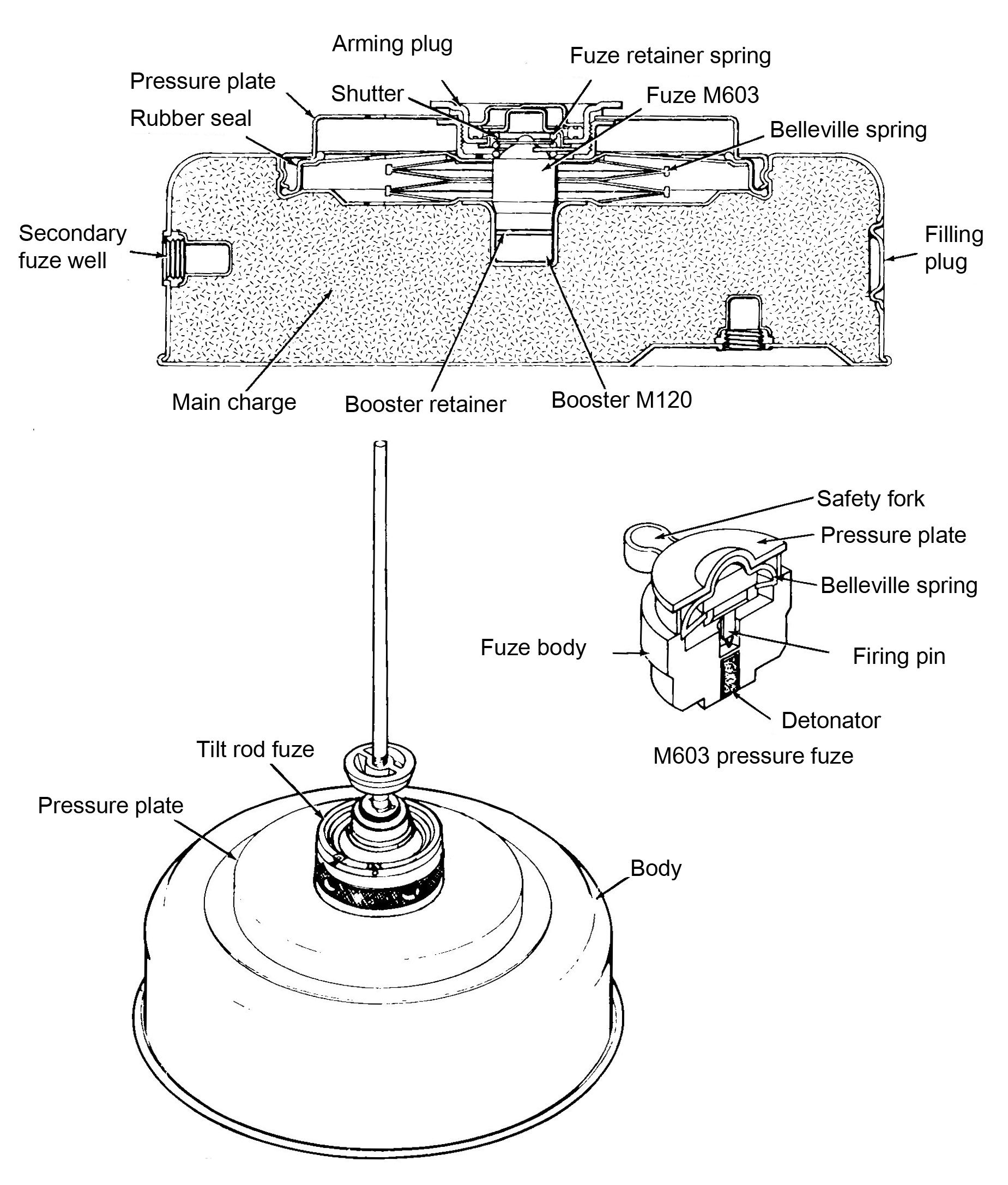 A diagram of a US M15 anti-tank mine.